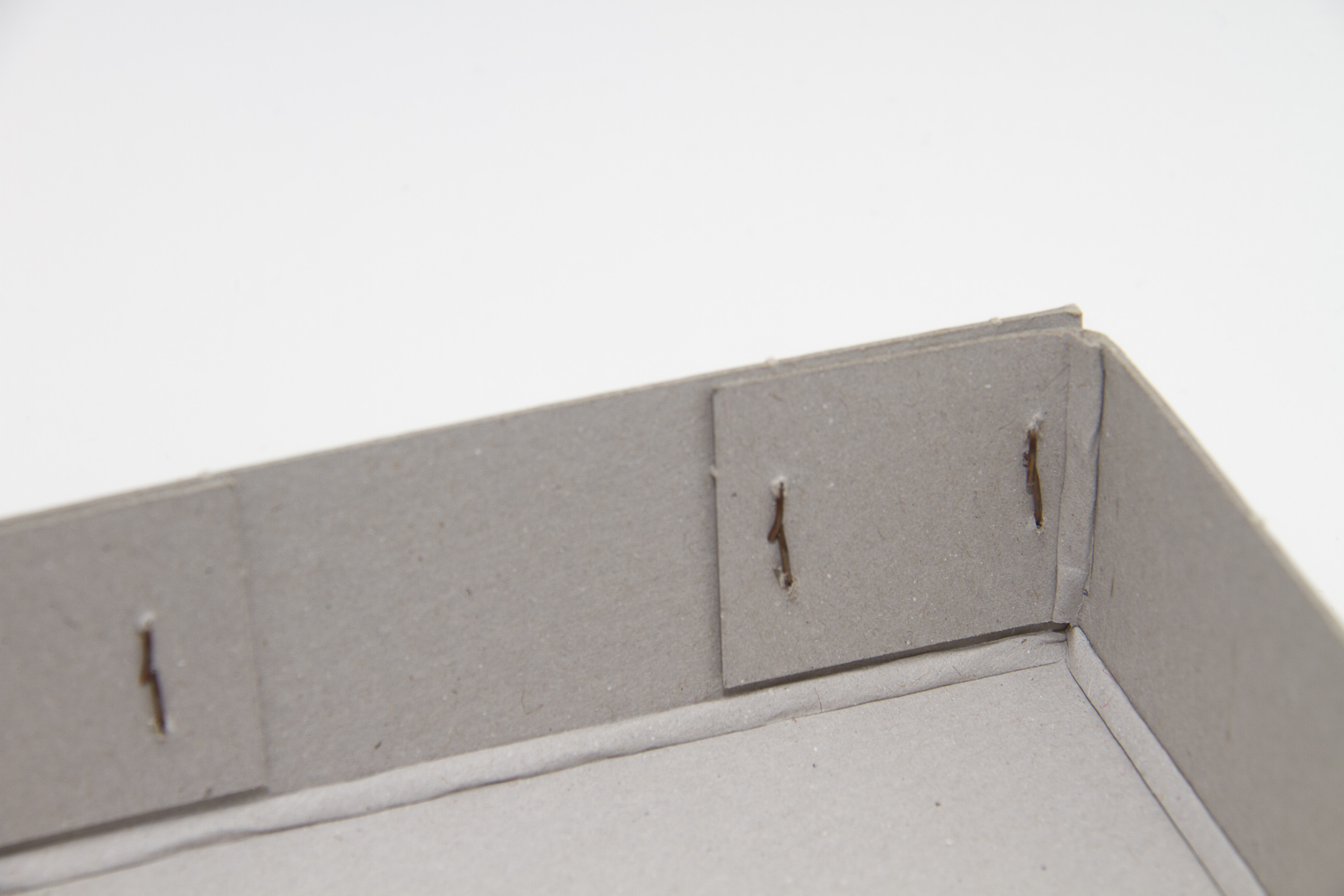 Creasing on thick carton